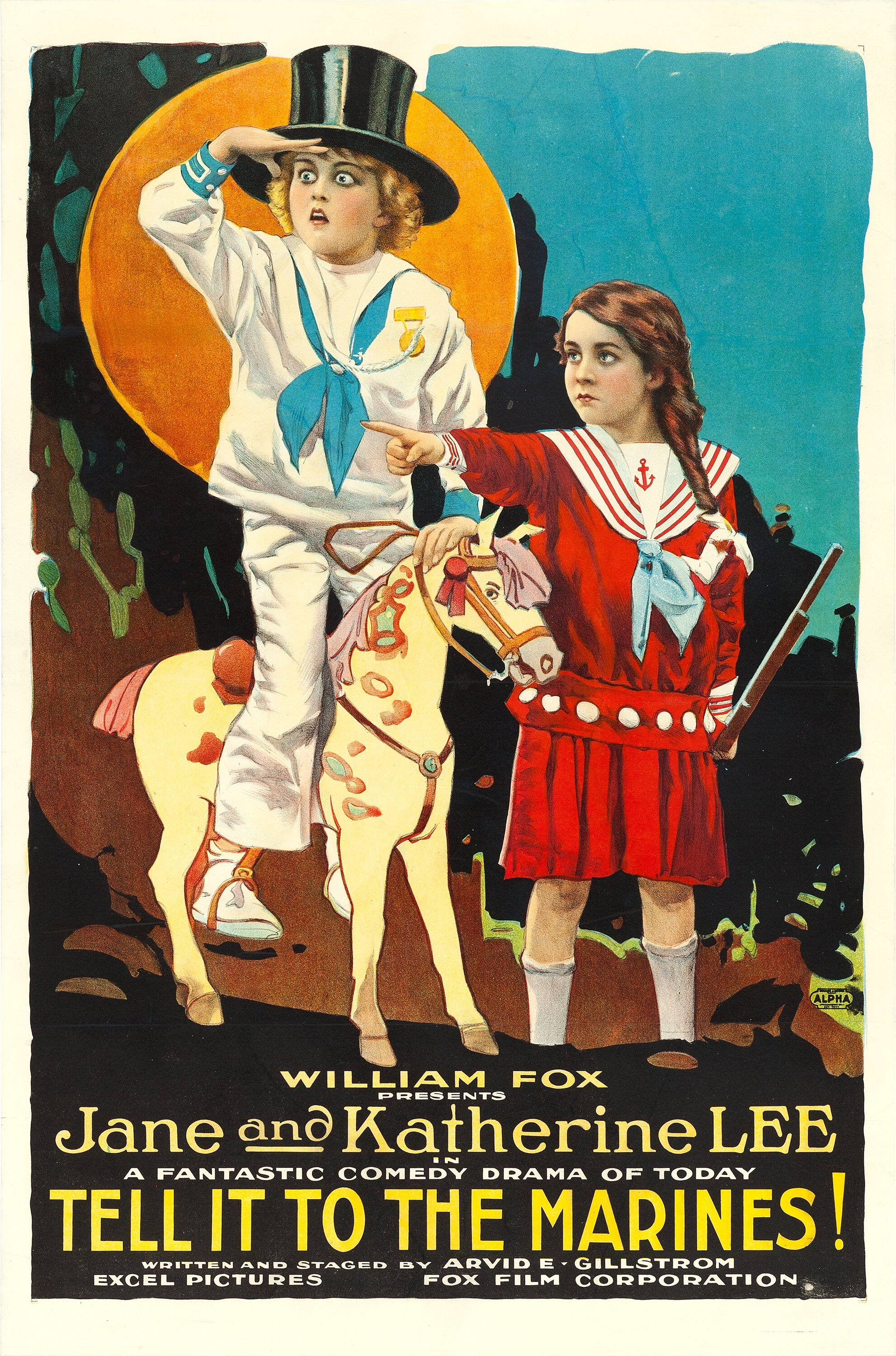 Tell it to the Marines (1918) featuring Jane and Katherine Lee. Original dimensions 27" x 41"